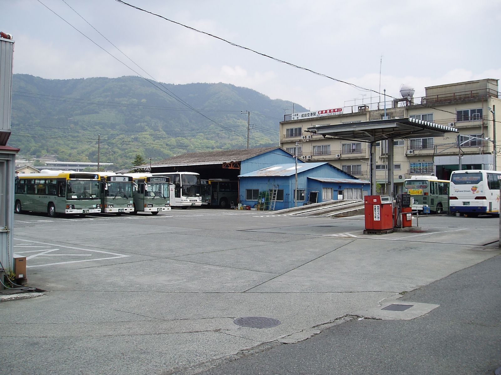 Fujikyu Shonan Bus Honsha Branch